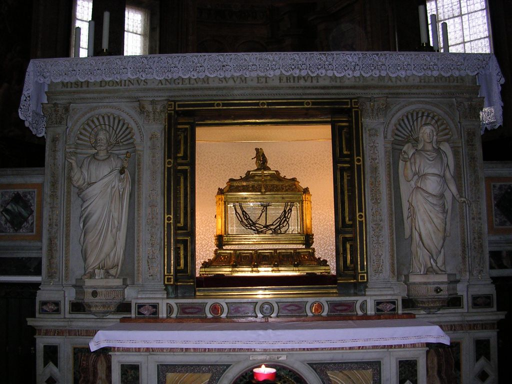 St. Peter's Chains (relic in San Pietro in Vincoli, Rome)